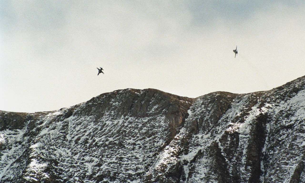 Two Northrop F-5E Tiger Jetfighters of the Swiss Air Force make a breathtaking dive over the ridgeline of Wildgärst (2890 m / 9482 ft AMSL) after firing at ground targetsAxalp Shooting Demo 2006, Axalp-Ebenfluh Bombing and Gunnery Range, Switzerland